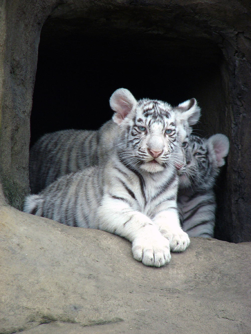 Little tigers albinos in the Moscow zoo (Panthera tigris tigris (bengalensis)).